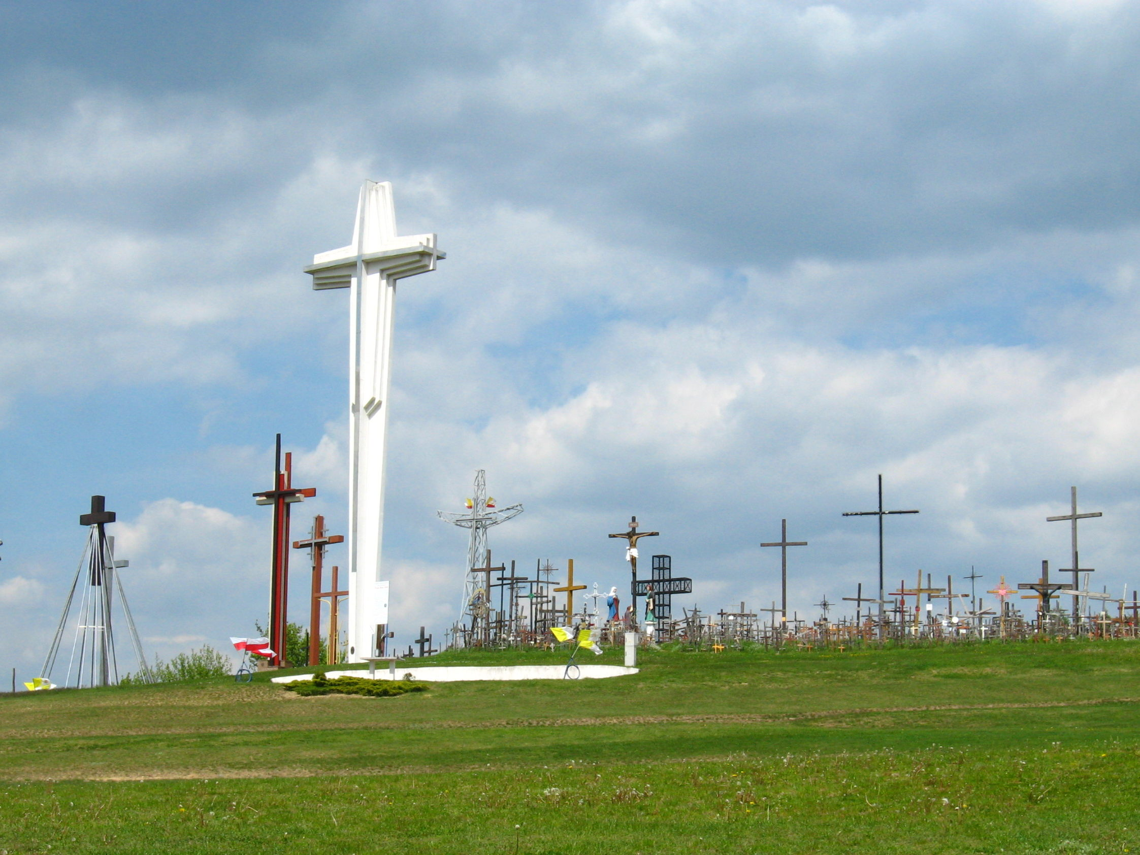 Hill of Crosses in Święta Woda (Holy Water) Sanctuary at Wasilków.